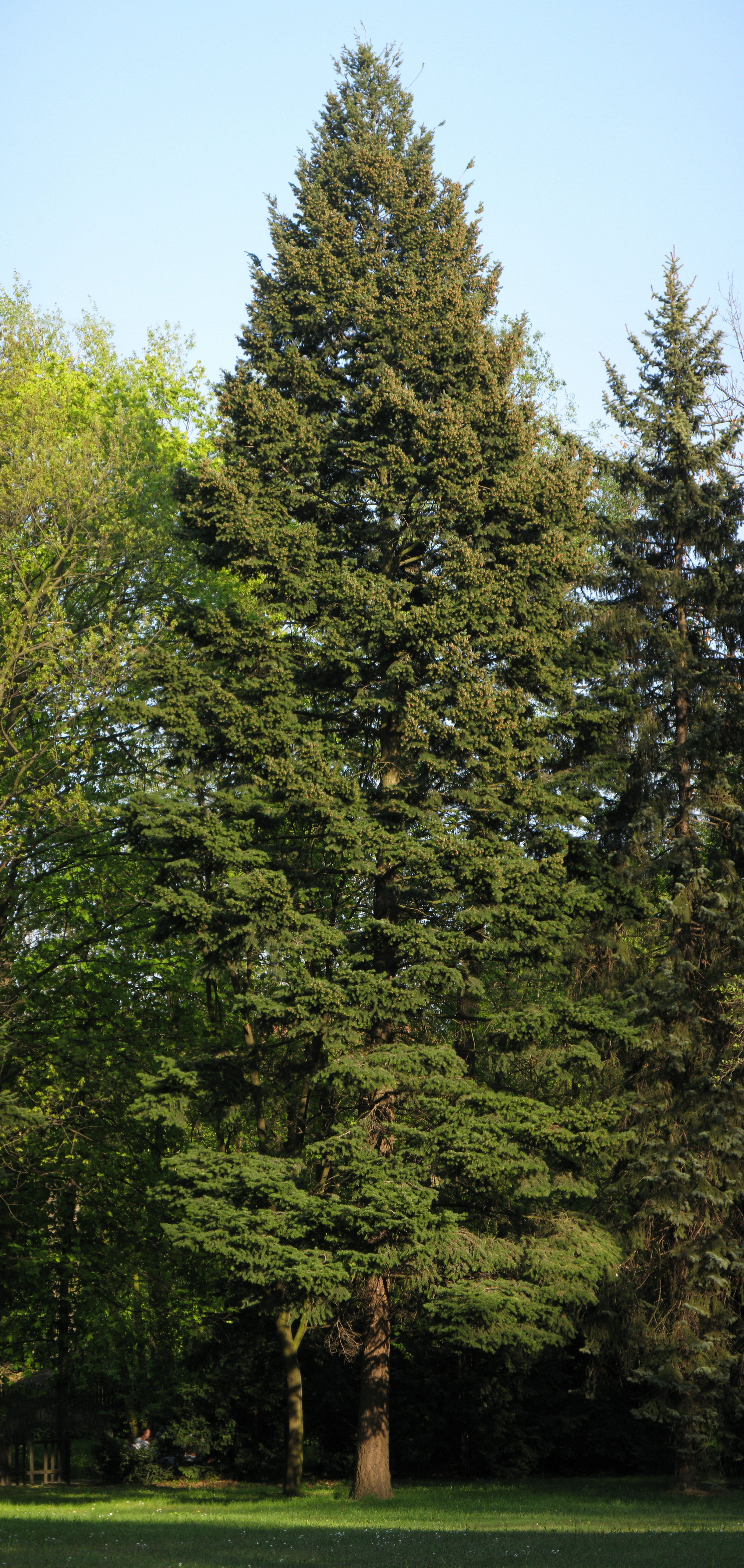 Coast Douglas-fir (Pseudotsuga menziesii) in Royal Baths Park in Warsaw